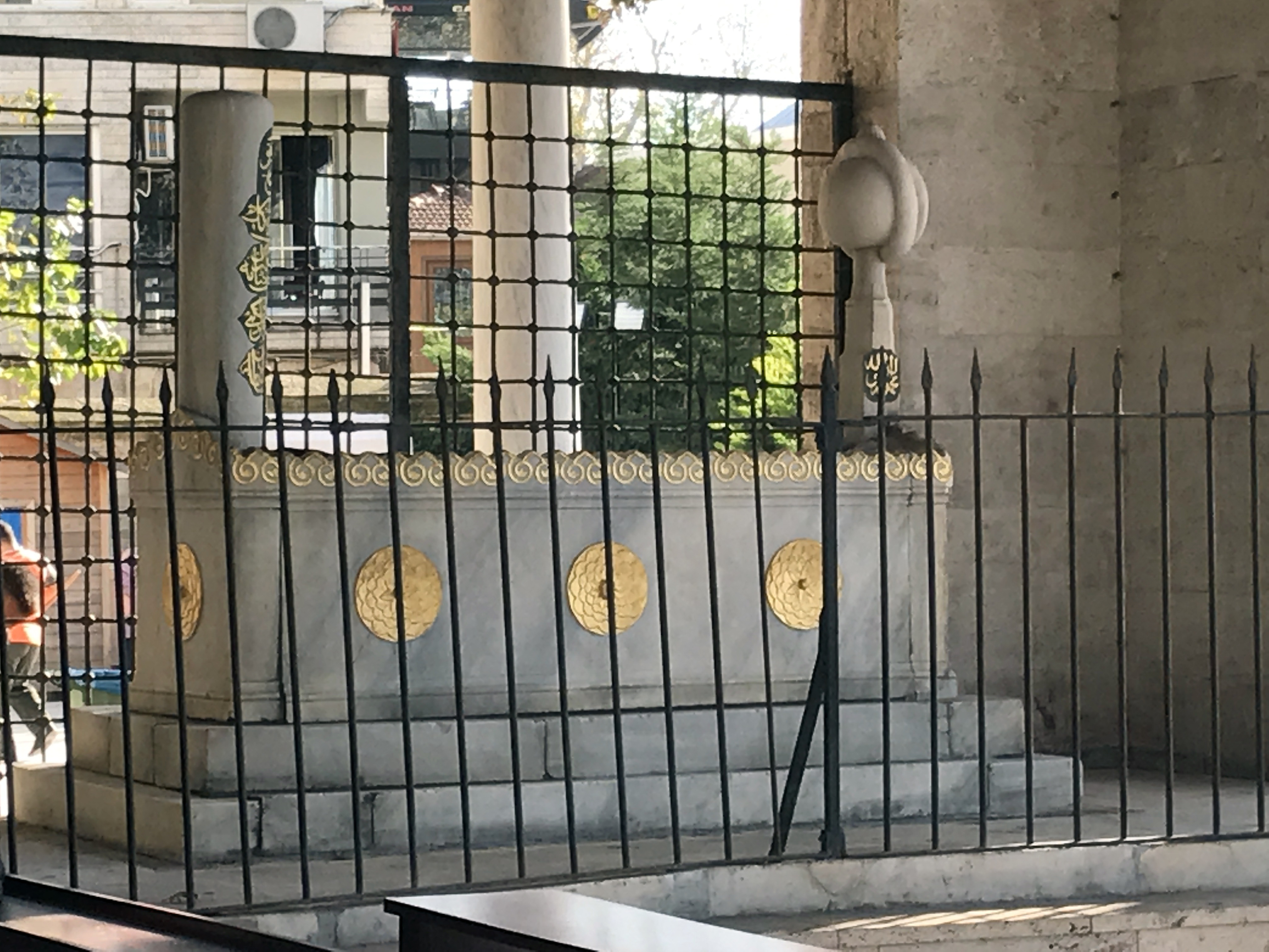 Mihrimah Sultan Mosque (built 1548), is an Ottoman mosque located in the historic center of the Üsküdar municipality in Istanbul, Turkey. It is the first of two mosques built by Mihrimah Sultan, daughter of Sultan Suleiman the Magnificent and wife of Grand Vizier Rüstem Pasha. It was designed by Mimar Sinan and built between 1546 and 1548.